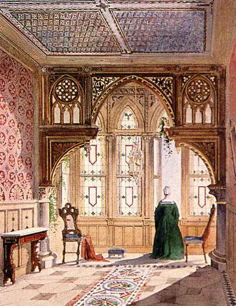 The drawing room of the lady-in-waiting in the Marienburg near Nordstemmen in Lower Saxony. Watercolour by Conrad Wilhelm Hase